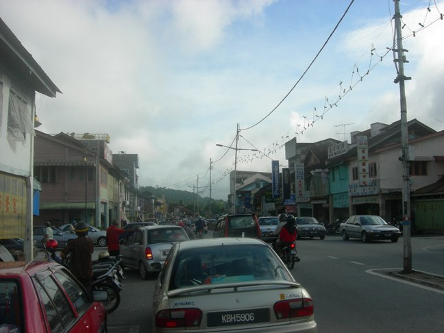 This is a view of the Lenggong town center. Pic taken using Nikon Coolpix P2.